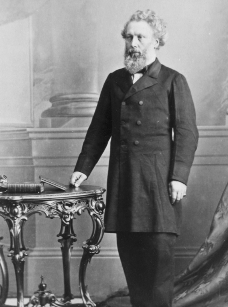 James Hodges of Pennyhill Park, Bagshot, 1860